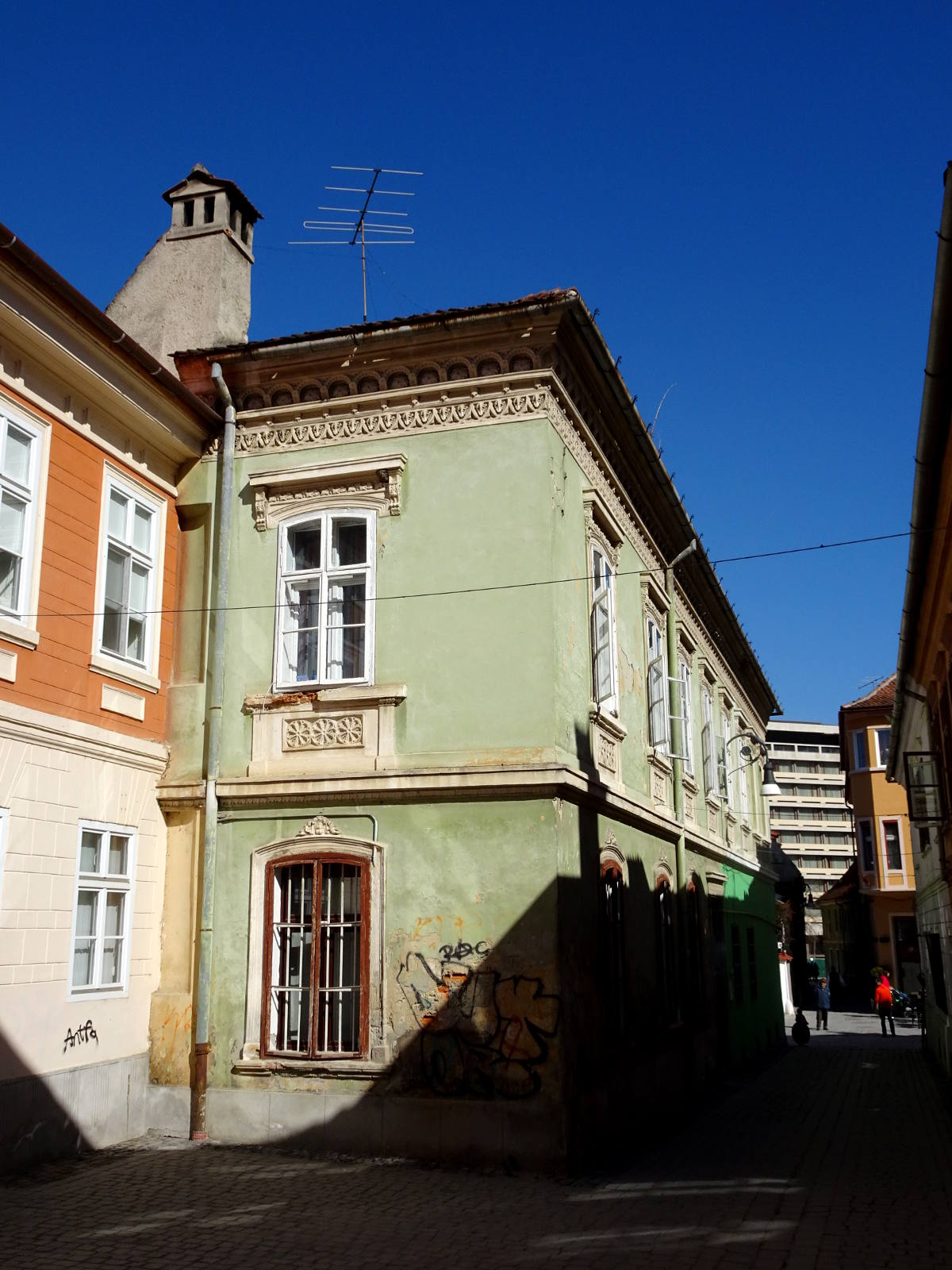 Piața Enescu in Brașov, house number 6